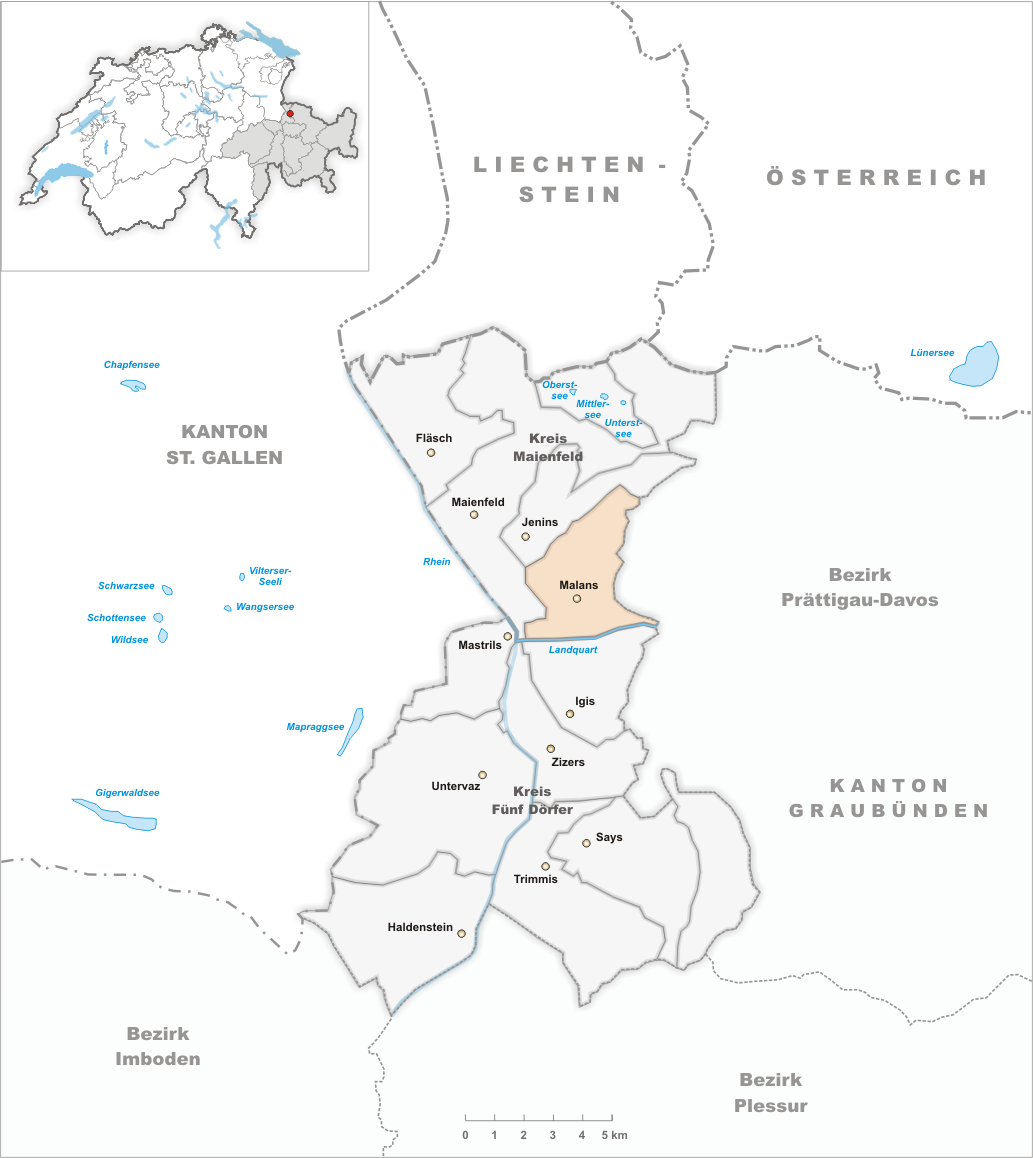 Municipality Malans